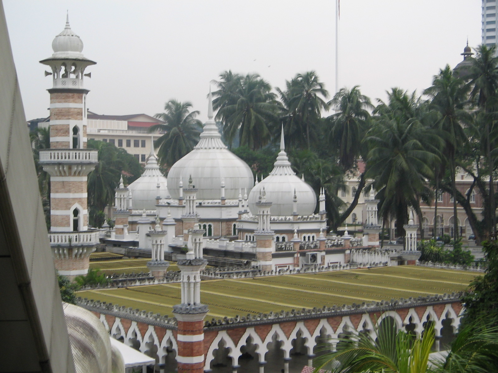 Jamek Mosque in Kuala Lumpur, Malaysia.